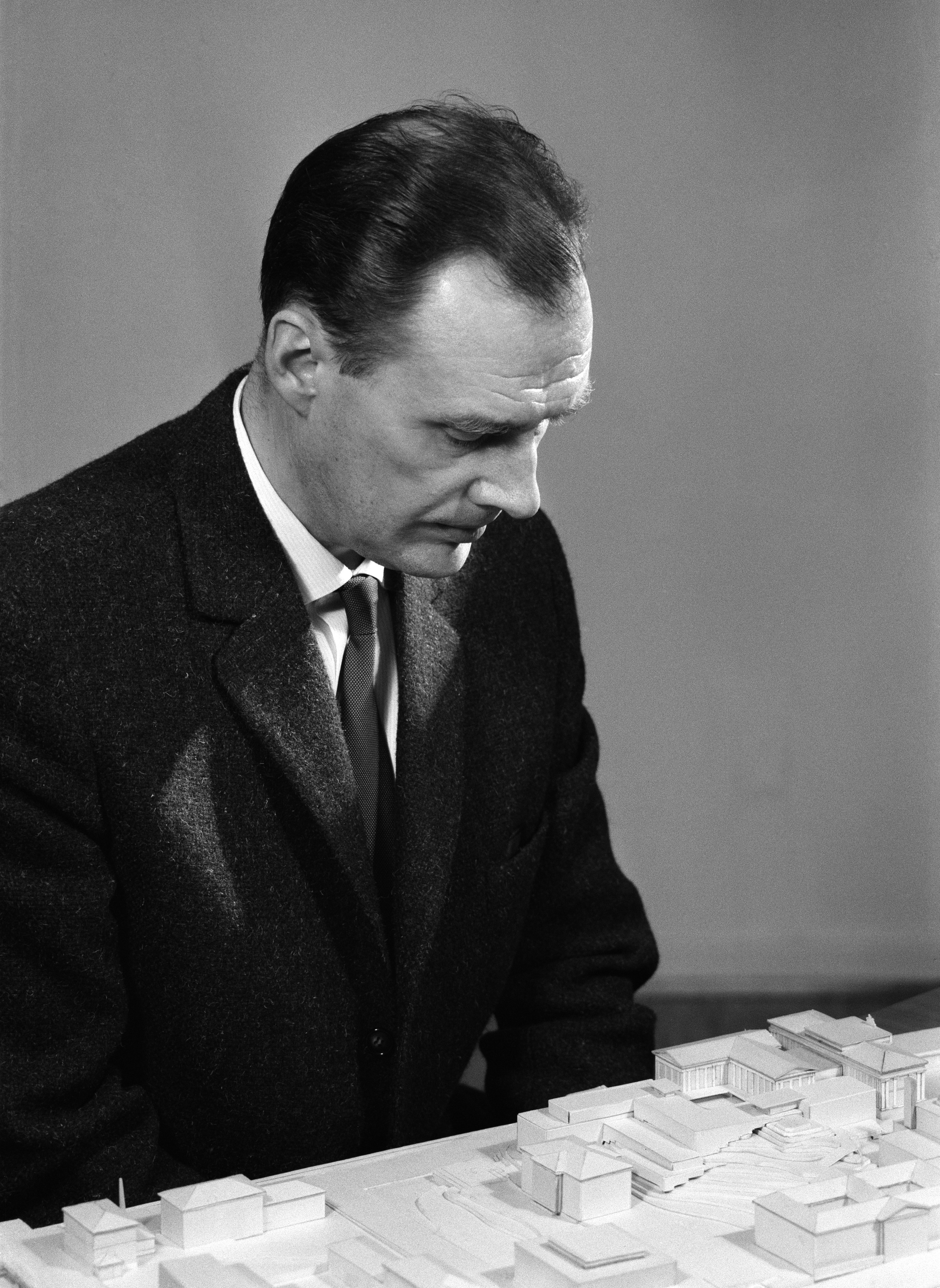 Photograph of the Finnish architect Olof Hansen (1919–1995).